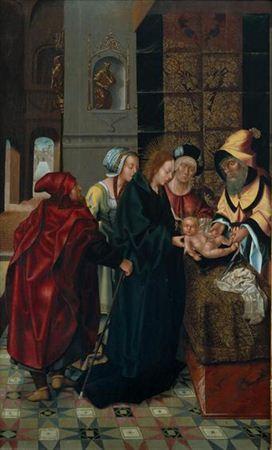 Circuncisão, painel do Políptico da Capela-mor da Sé de Viseu